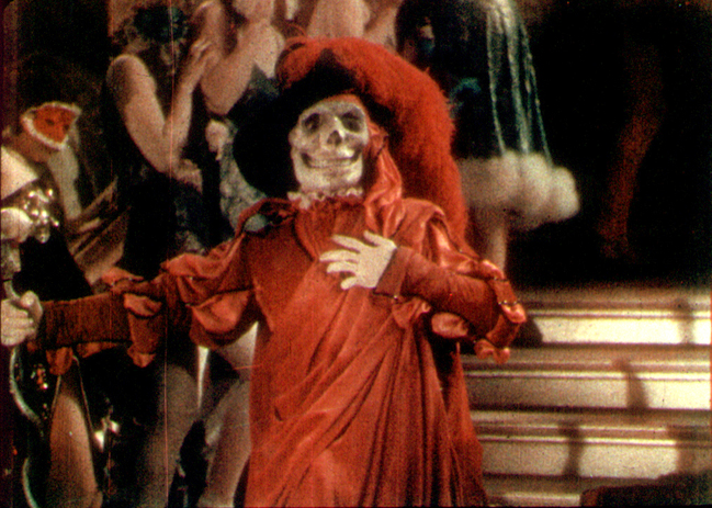 Frame enlargement from a 1929 reissue print of THE PHANTOM OF THE OPERA (1925), a Universal Production starring Lon Chaney, Mary Philbin, and Norman Kerry.